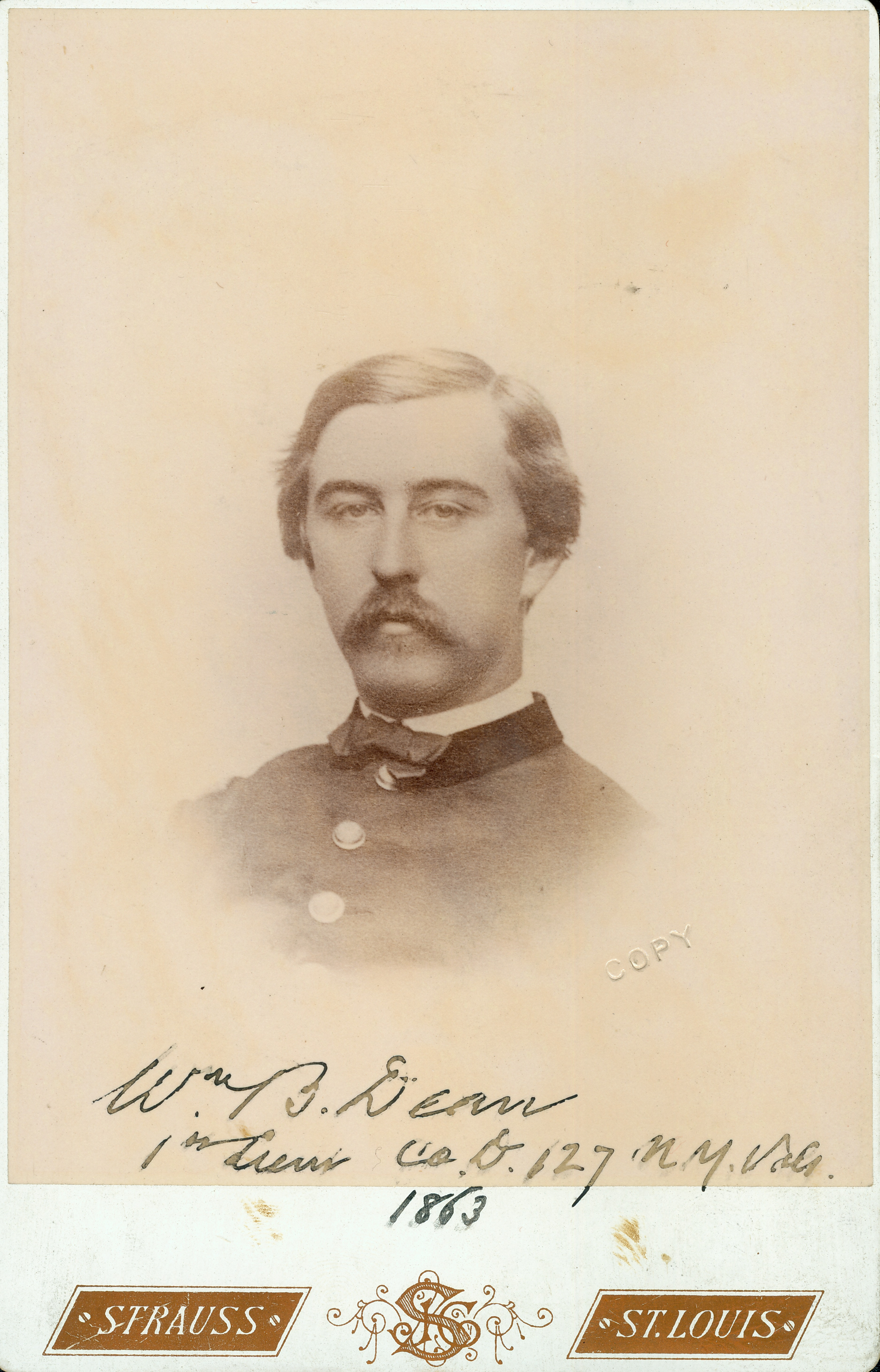 Bust portrait of William B. Dean in uniform, and turned slightly to the left. "Wm B. Dean 1st Lieut Co. D. 127 N.Y. Inft. 1863" (written below image). "Strauss" and "ST. LOUIS" (printed below image). Title: William B. Dean, 1st Lieutenant, Company D, 127th New York Infantry (Union).